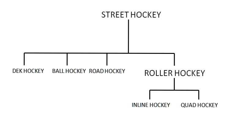 A visual aid breaking down the various different forms of Street Hockey.